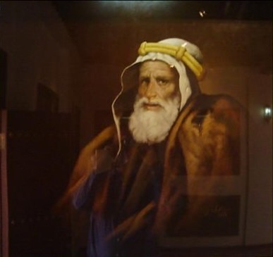 Photograph of painting of Zayed bin Khalifa, taken by me at the Al Ain Palace Museum (Al Ain, UAE), on 16 February 2008.